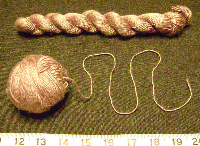 Comparison of a hank of yarn and the ball made from it. Lavender silk, and slightly shiny.